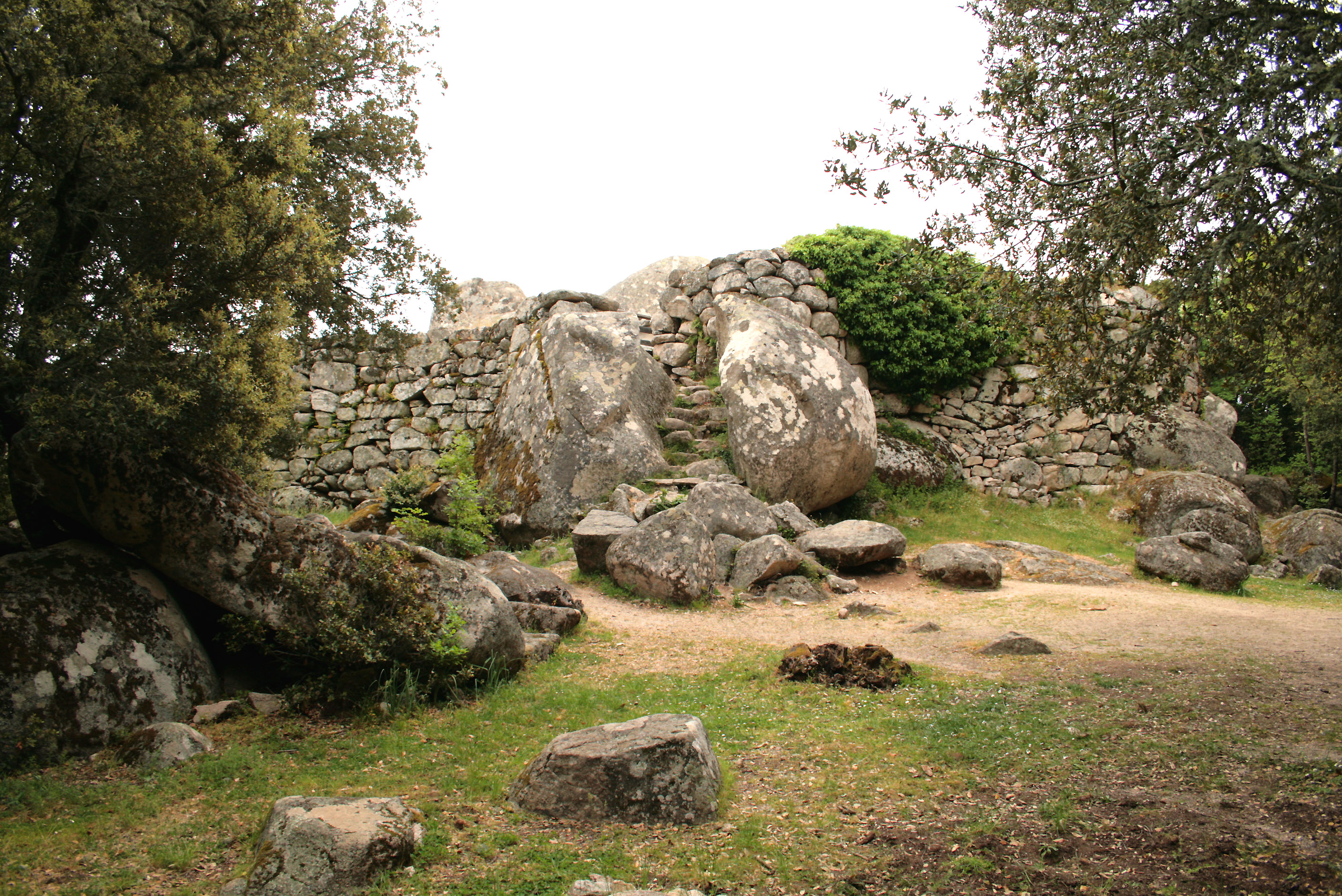 Levie France (Corse-du-Sud), entry stairs and cyclopean walls of the Cucuruzzu fortress. Walon: Levie France (Corse-do-Sud), montéye èt murs cyclopéyins do forterèsse di Cucuruzzu.